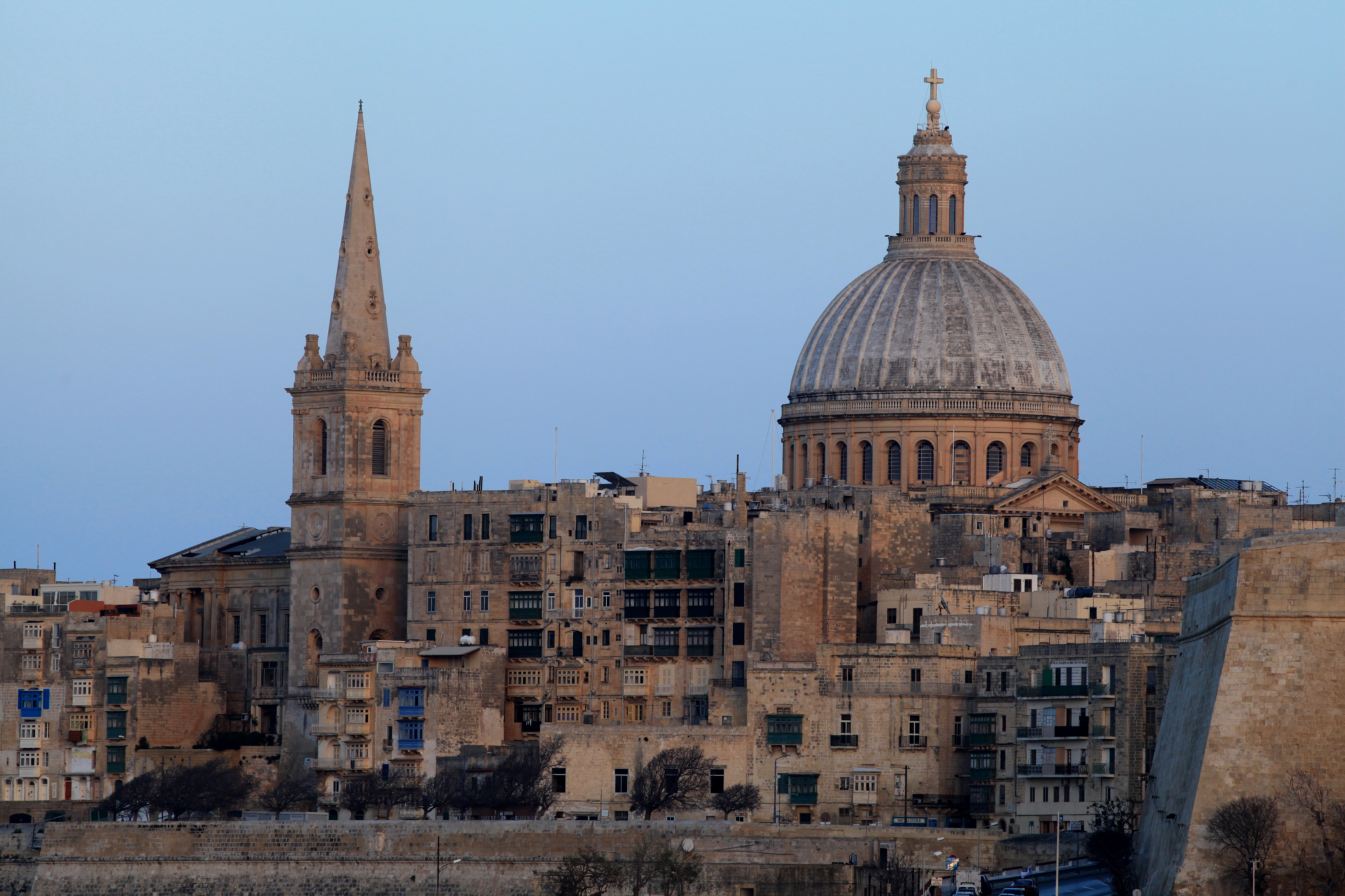 View from Ix-Xatt Ta' Xbiex in Ta' Xbiex to the Basilica Our Lady of Mount Carmel and St Paul's Pro-Cathedral in Valletta, Malta